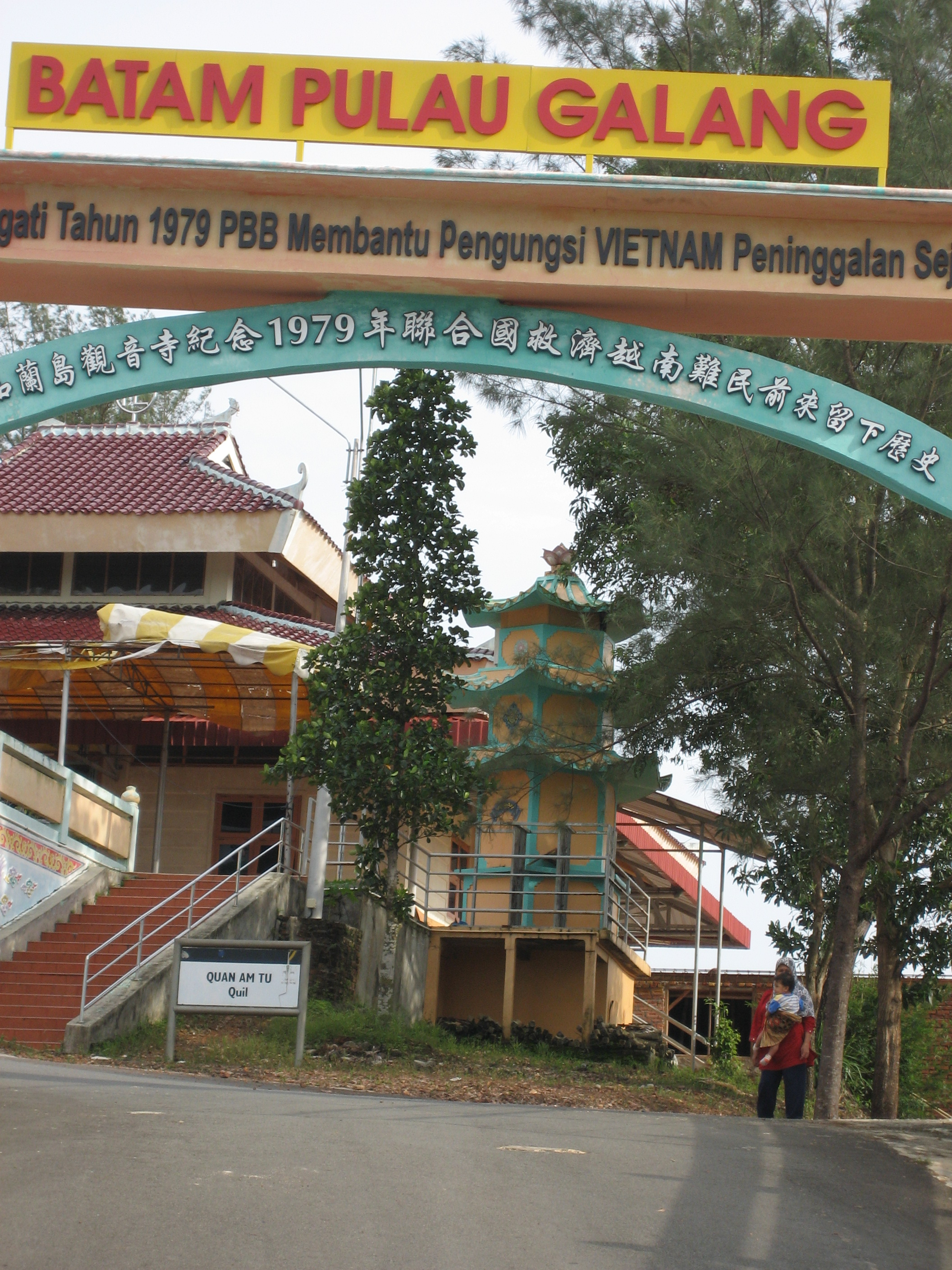 Vietnamese Galang Refugee Camp, in Galang island, Batam, Indonesia